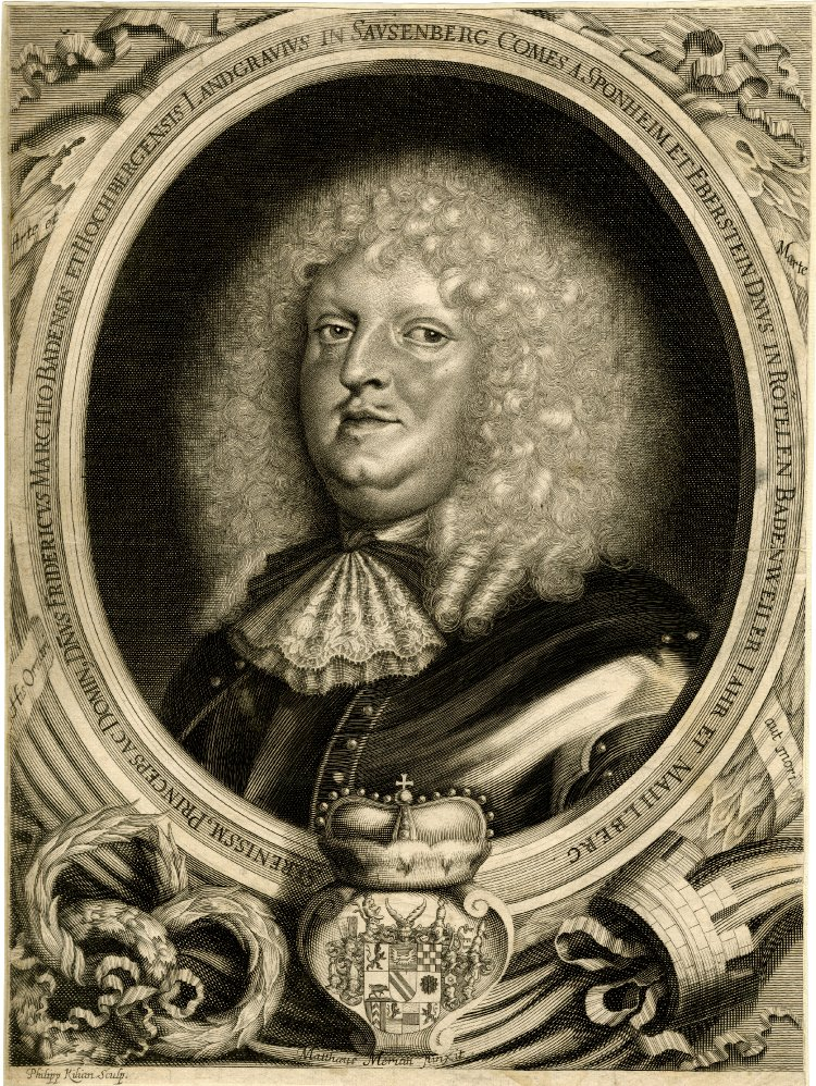 Frederick VI, Margrave of Baden-Durlach